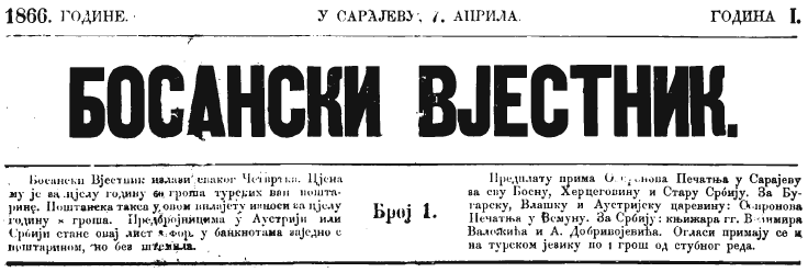 Nameplate of Bosnaski vjestnik (Serbian Cyrillic: Босански вјестник), the first newspaper to be printed in Bosnia and Herzegovina